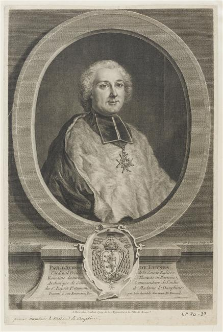 Portrait of Paul d'Albert de Luynes (1703-1788)